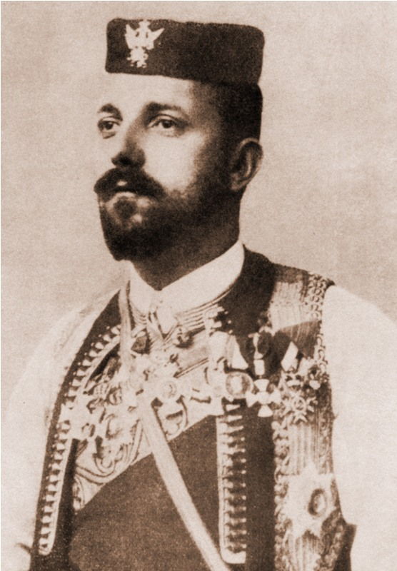 Andrija Radović (1872-1947) was prime minister of Montenegro. The photo was taken before 1917, and it is probably older